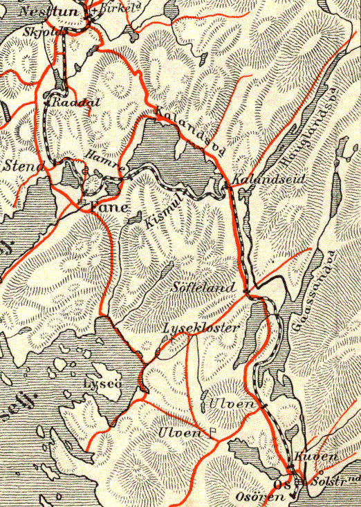 Map of Bergen 1907 cropped, shows the railway Nesttun - Os